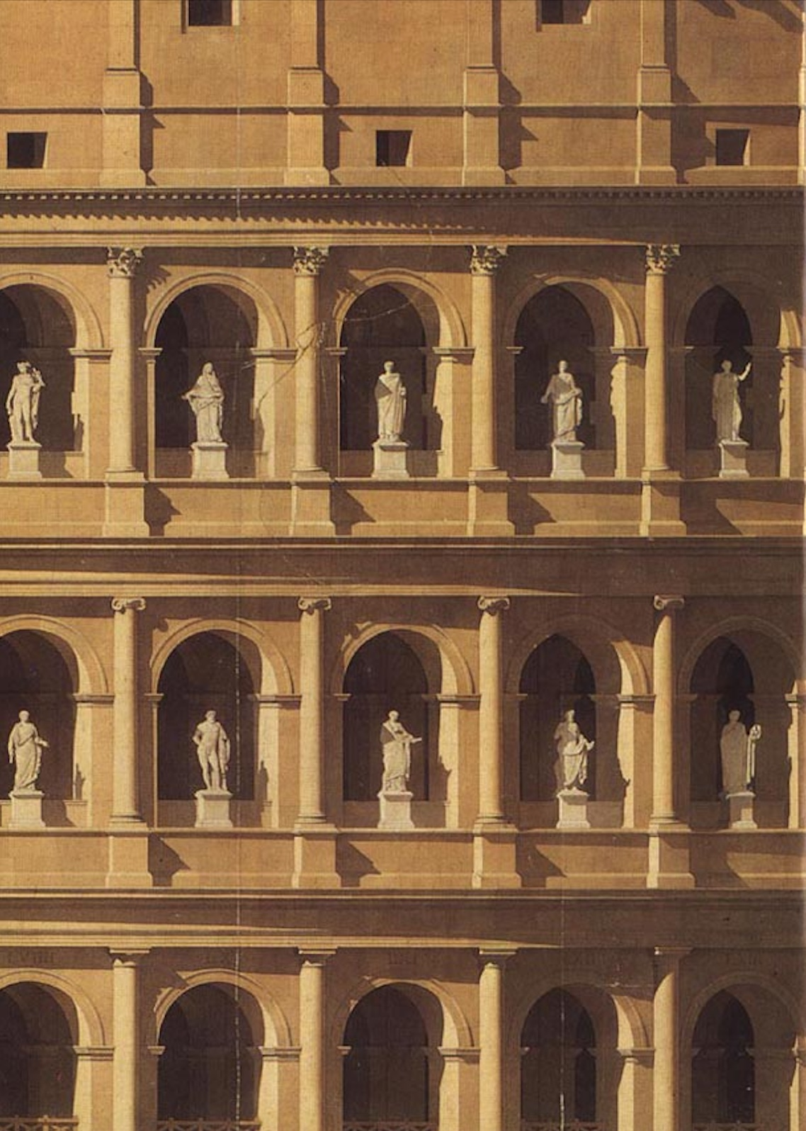 Detail of The Flavian Amphitheatre (Coliseum), reconstruction.